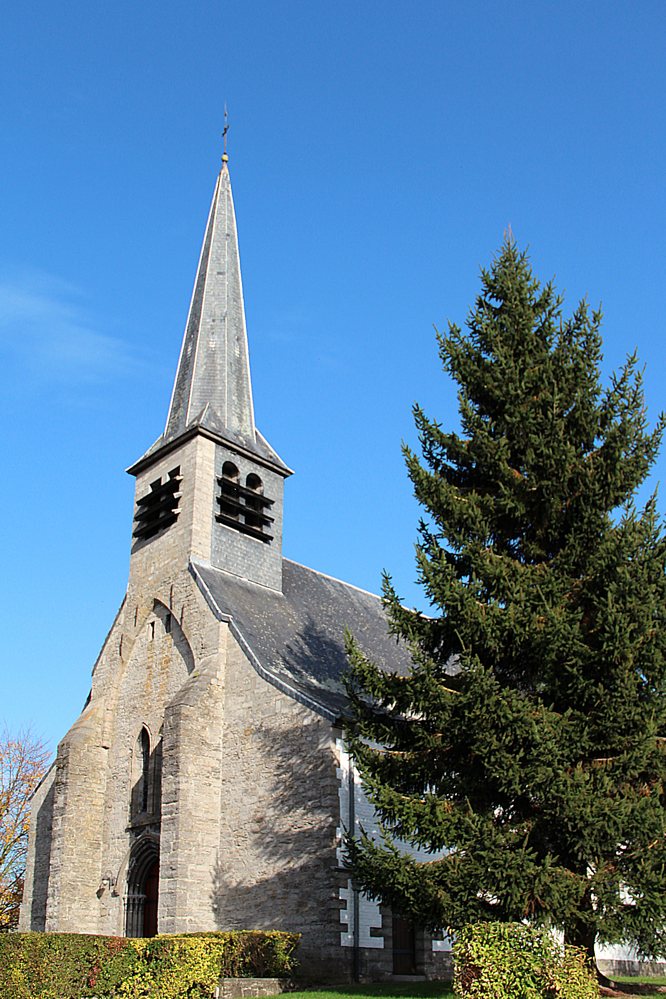 Vezon (Belgium), the church of Saint Peter.